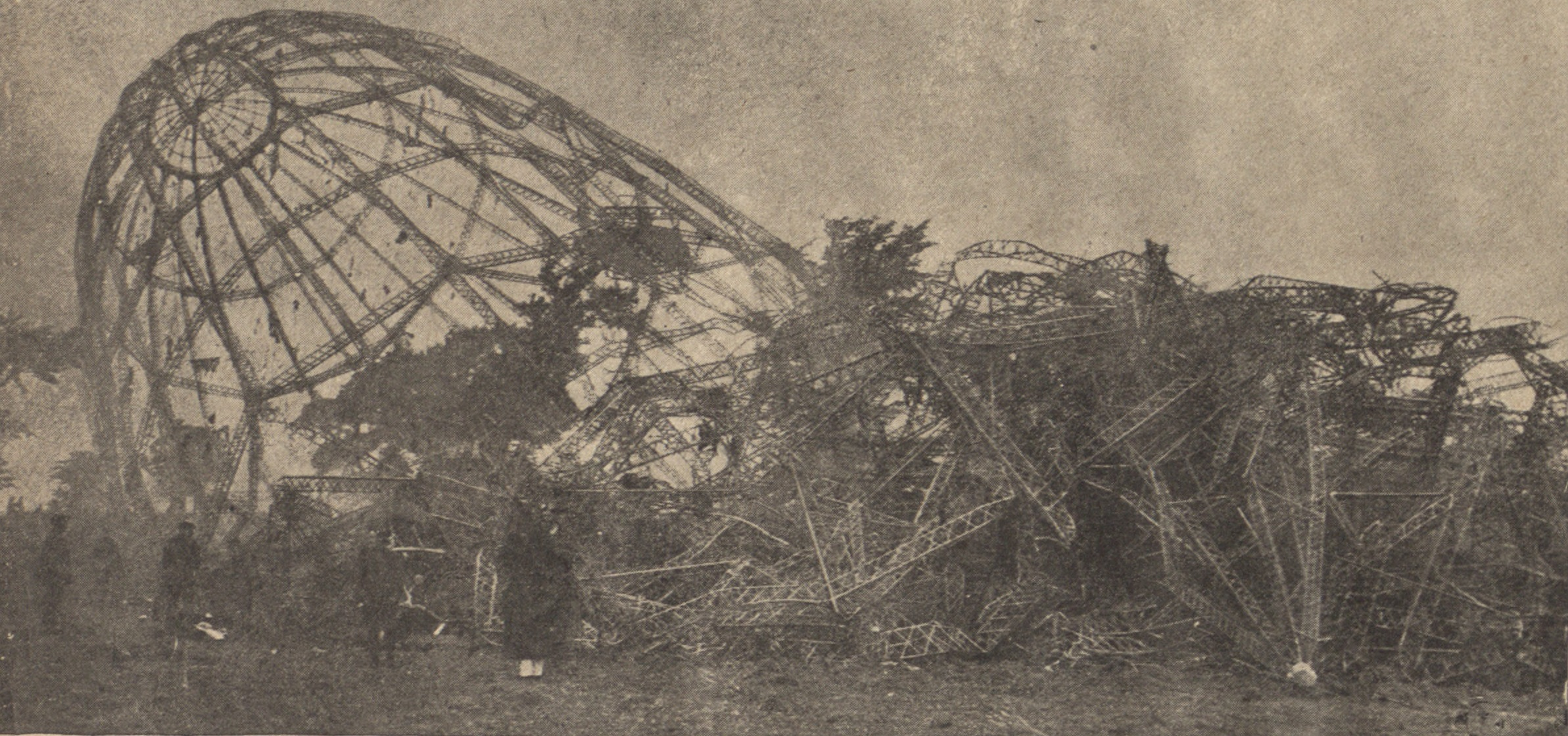 Caption:Here's what happened to one of the two baby killing Zeppelins that raided the English coast early one Sunday morning last month the result of a British aviator's skill and daring.